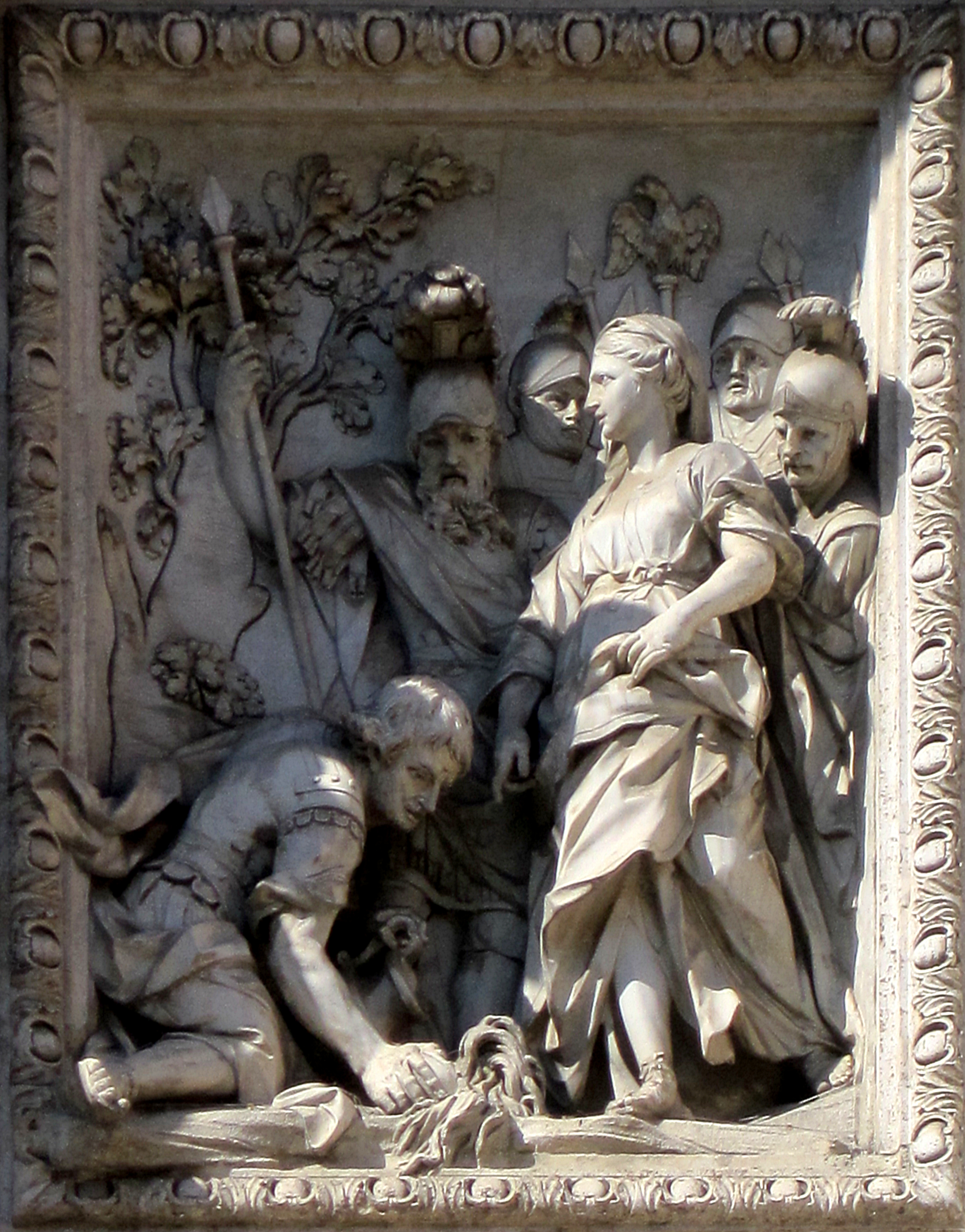 Low relief panel depicting a young virgin showing to the soldiers the Aqua Virgo water source. This work by sculptor Andrea Bergondi adorns the upper right of the Trevi Fountain in Rome (Italy).